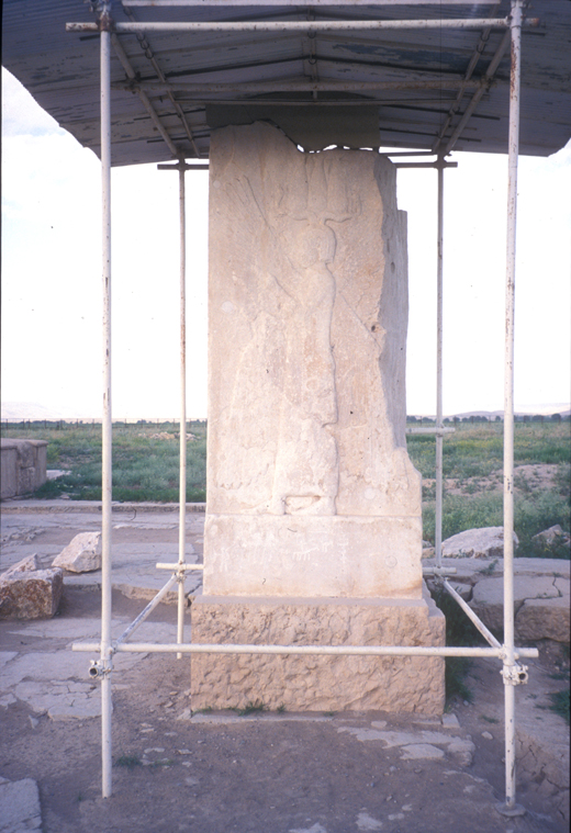 Relief of Cyrus the Great, Pasargadae. Relieve de Ciro el Grande, Pasargadas.